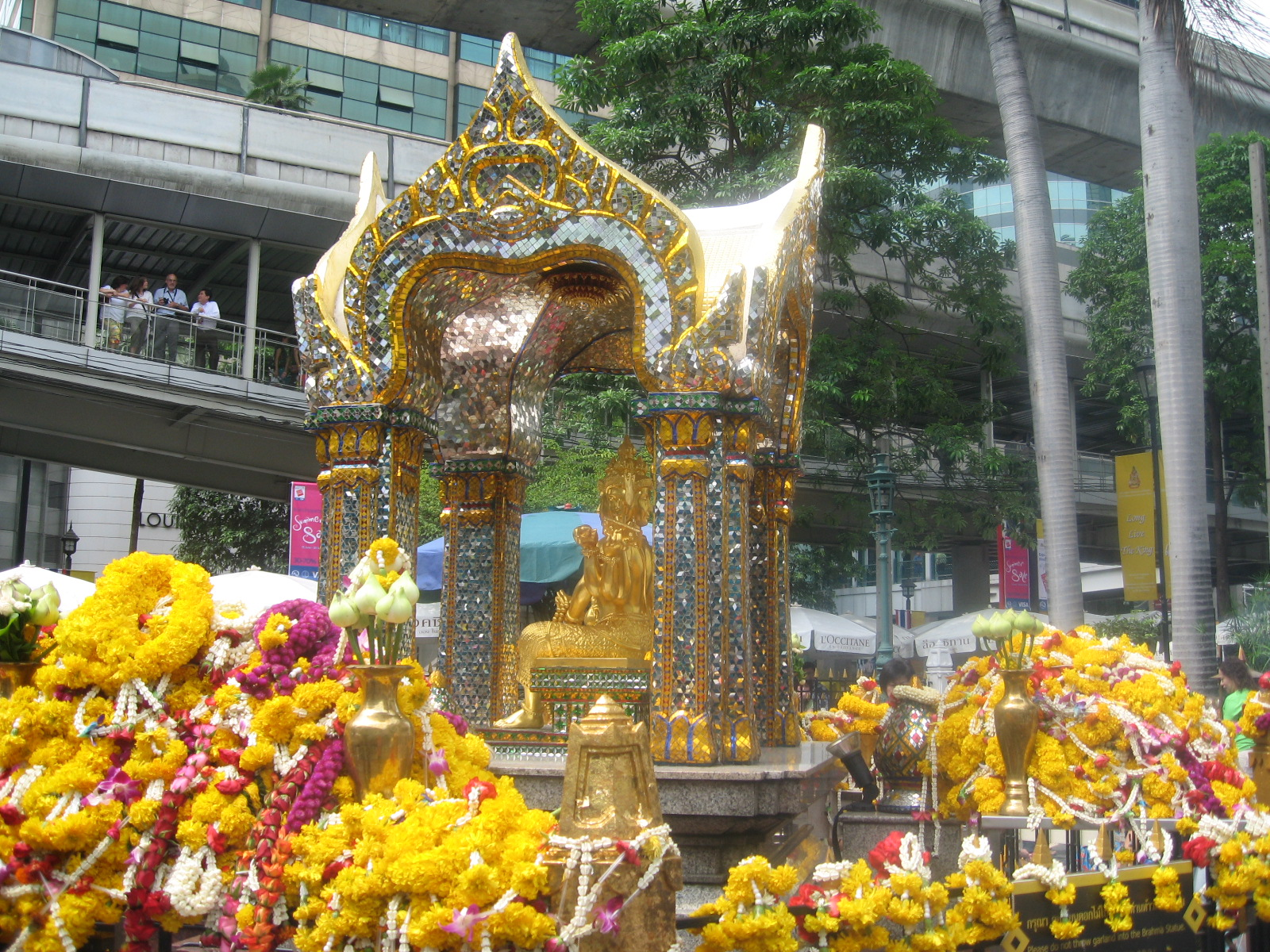 Erawan Shrine, Bangkok.